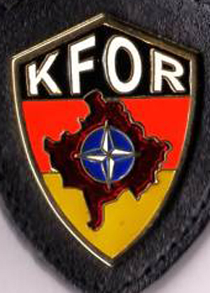 KFOR badge